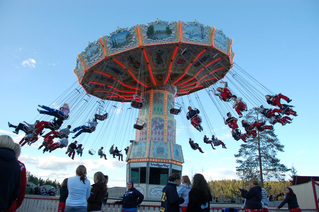 "Sverrehuskene" at TusenFryd (Norway) in 2011. Opened: 1988Norsk bokmål: "Sverrehuskene" på TusenFryd i 2011. Åpnet i 1988.